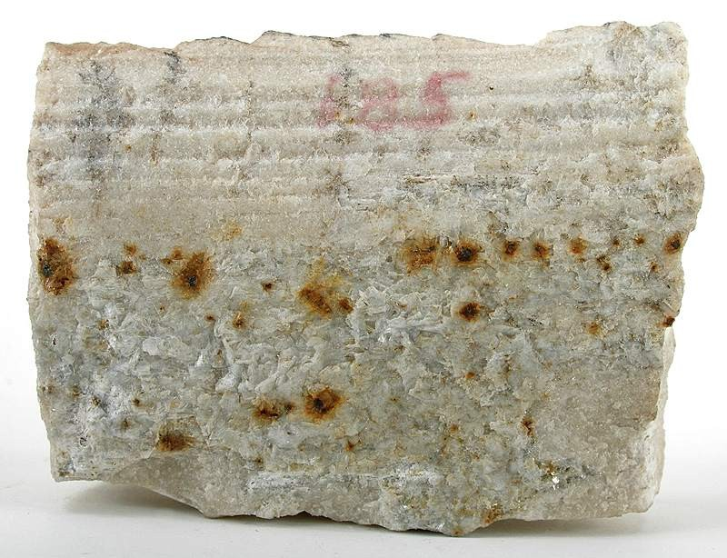 Eucryptite Locality: Abija N. Fillow Quarry (Branchville Quarry), Branchville, Redding, Fairfield County, Connecticut, USA (Locality at ) Size: 9.3 x 7.0 x 2.8 cm. From the TYPE LOCALITY 1880, this specimen has small grains of eucryptite embedded in the albite matrix. They are fluorescent orange. According to MINDAT, named in 1880 by Brush and Dana from the Greek for "well concealed", in allusion to its occurrence embedded in albite. I have not seen a type locality piece for sale before. Ex. Academy of Natural Sciences Philadelphia Collection.